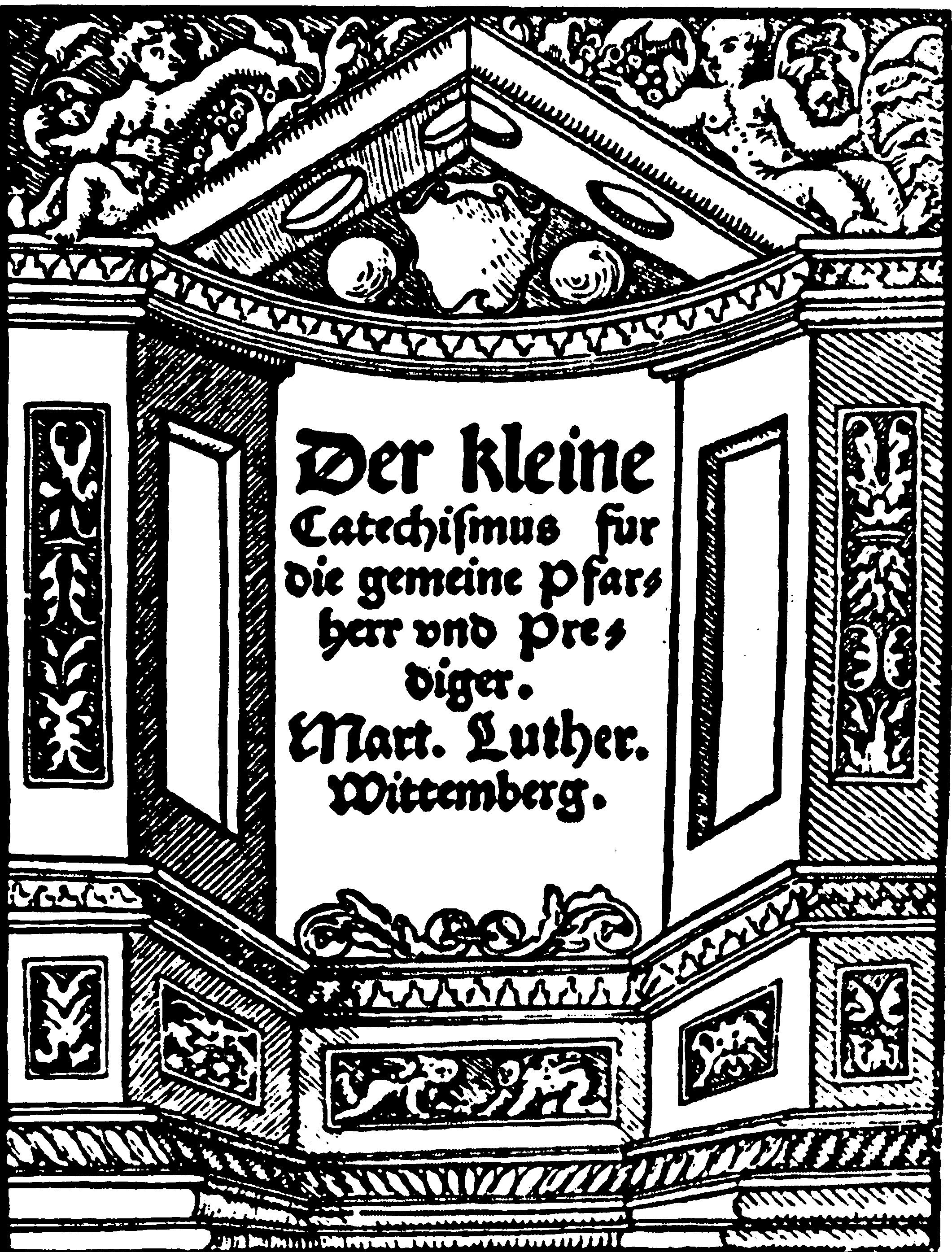 Woodcut of title page of the small catechism of Martin Luther, 1528